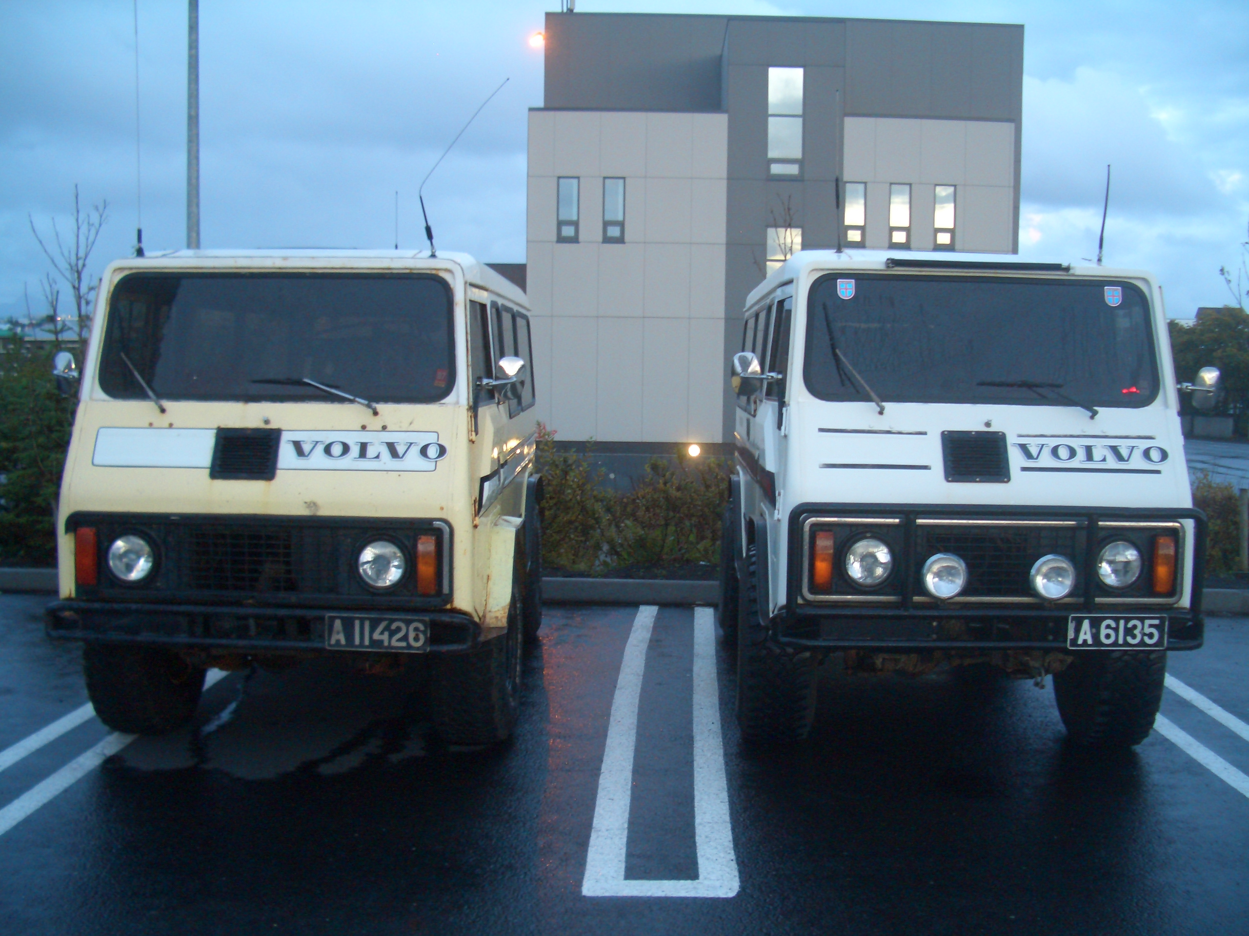 Two special Iceland versions of the Volvo C202 (both from 1983) next to the Hallgrimskirkja, Reykjavík